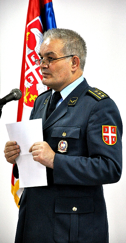 Prof. Ilija Kajtez, at the presentation of the book "Wisdom and sword" Atrium of Ceremonial Hall, Army Center of Serbia, Belgrade, April 4, 2013. Српски (ћирилица): Проф. Илија Кајтез, на представљању књиге „Мудрост и мач“, Атријум Свечане сале Дома Војске Србије, Београд, 4. април 2013. Srpski (latinica): Prof. Ilija Kajtez, na predstavljanju knjige „Mudrost i mač“, Atrijum Svečane sale Doma Vojske Srbije, Beograd, 4. april 2013.